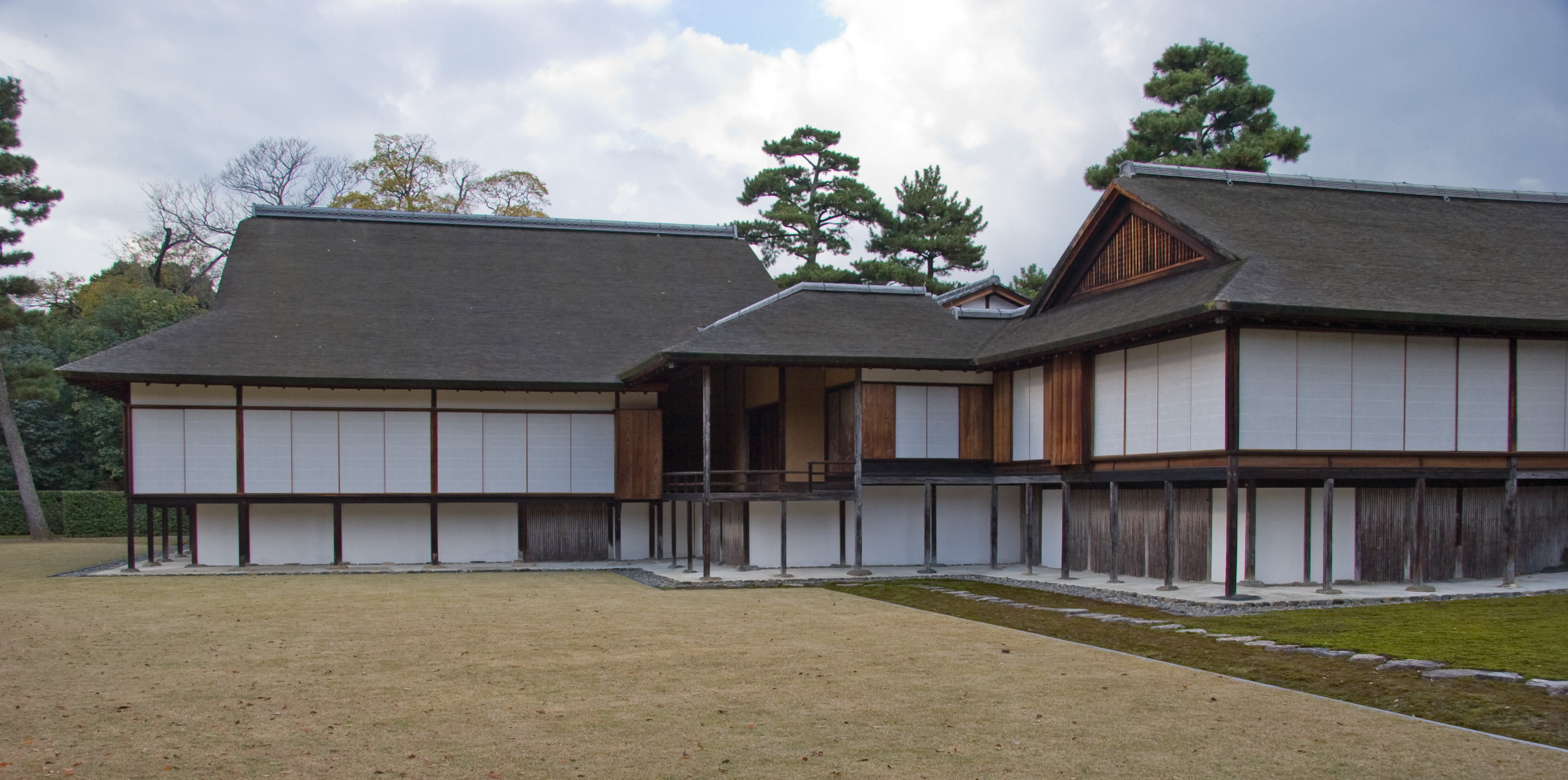 Katsura Rikyu